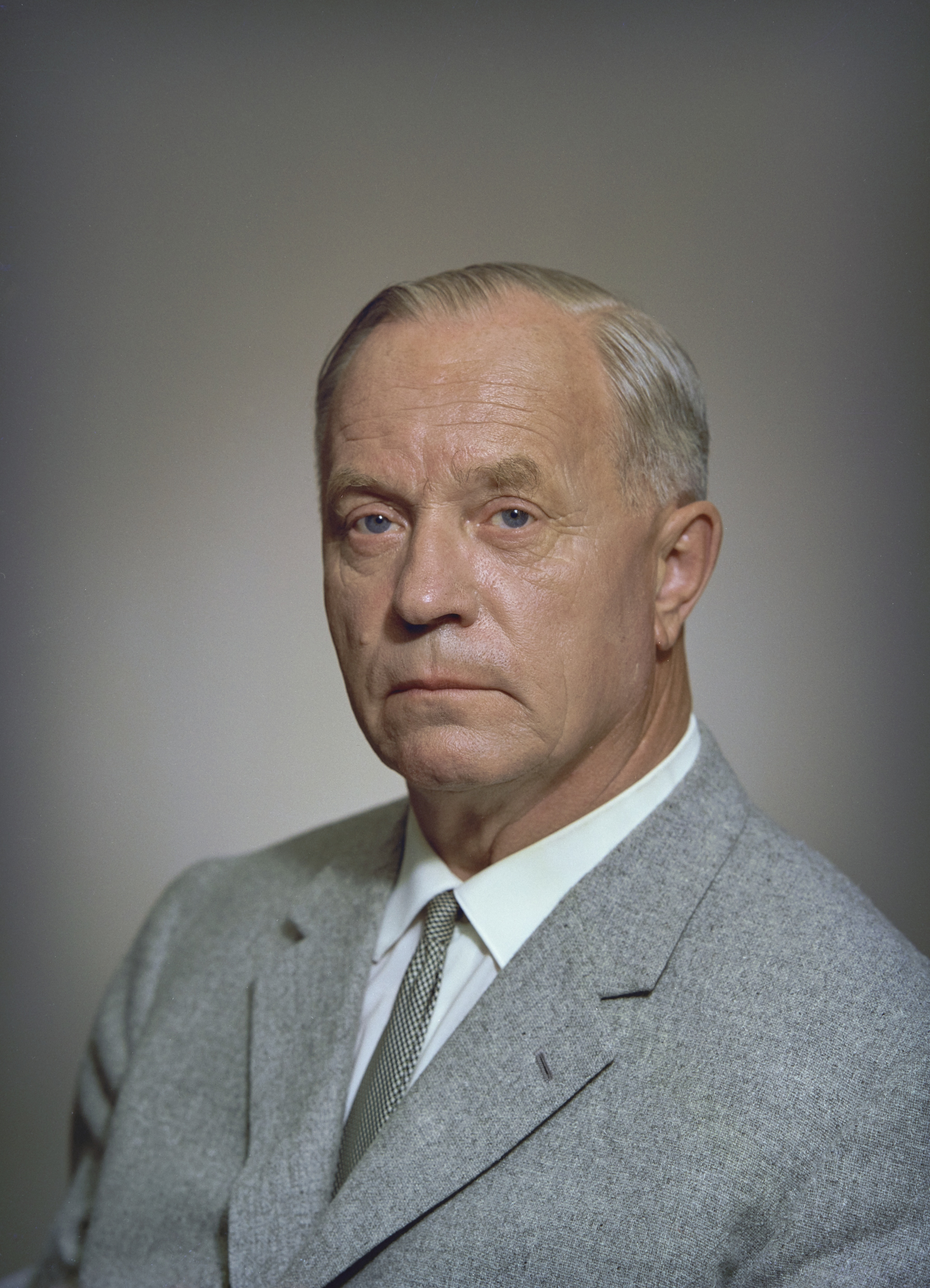 Photograph of the Finnish physician and politician Erkki Leikola (1900–1986).